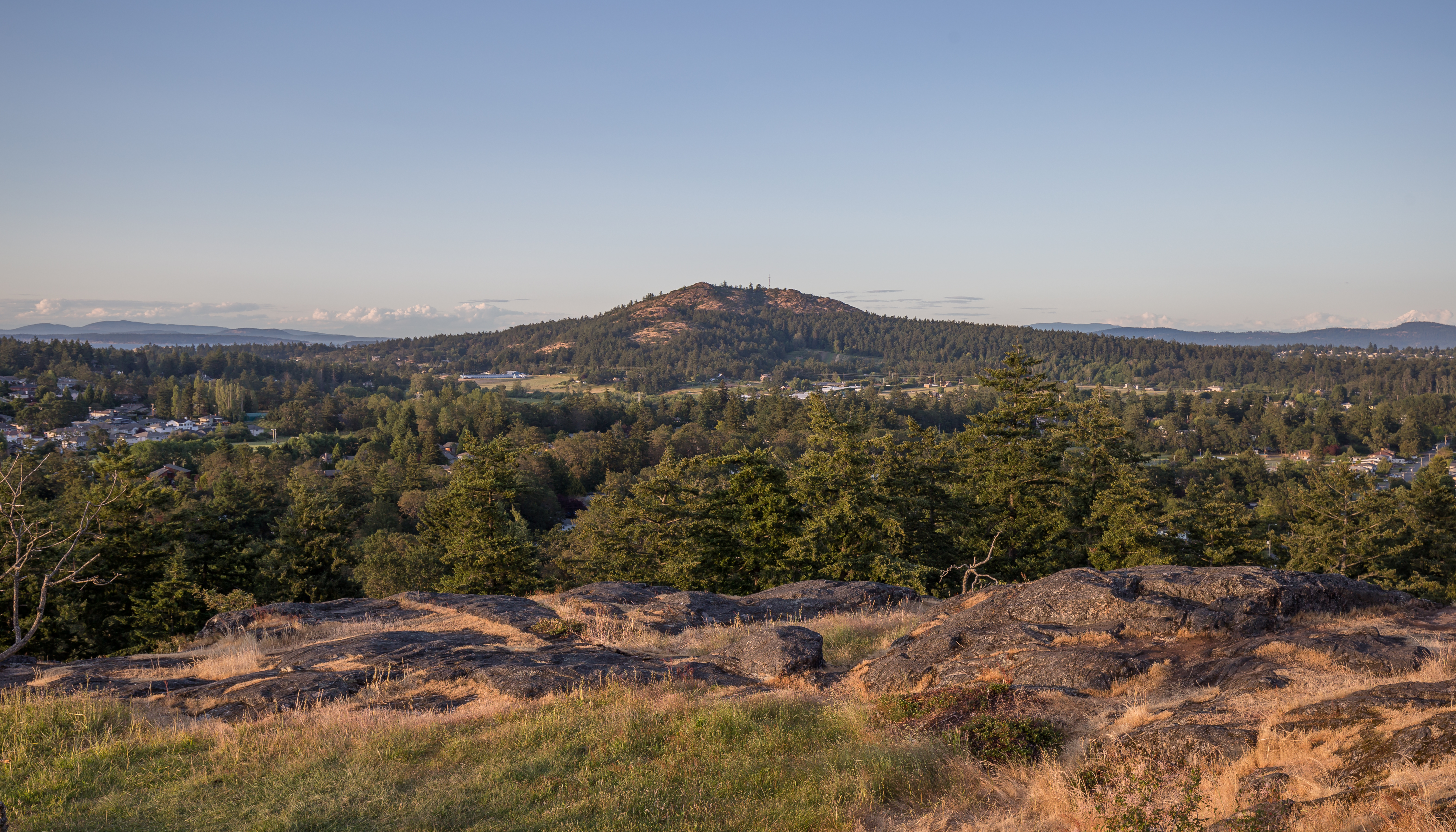 View to Mt Douglas from Christmas Hill, Saanich, British Columbia, Canada